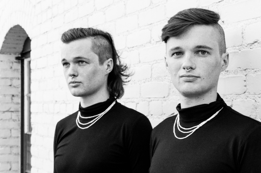 Oliver Riot photographed by Matt Young